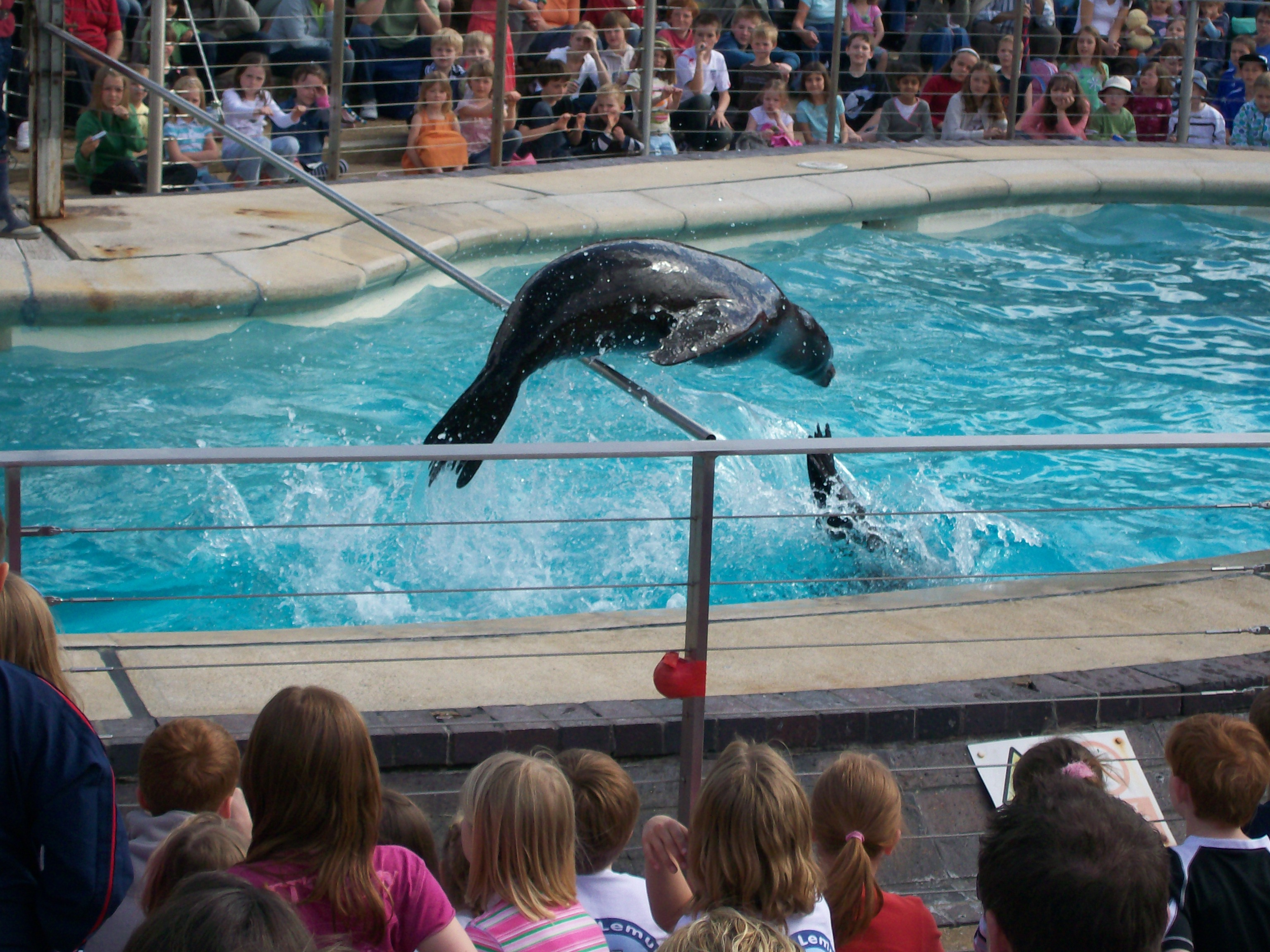 I (Natalie Warren) took this photo. Sea Lion at ZSL Whipsnade Zoo.